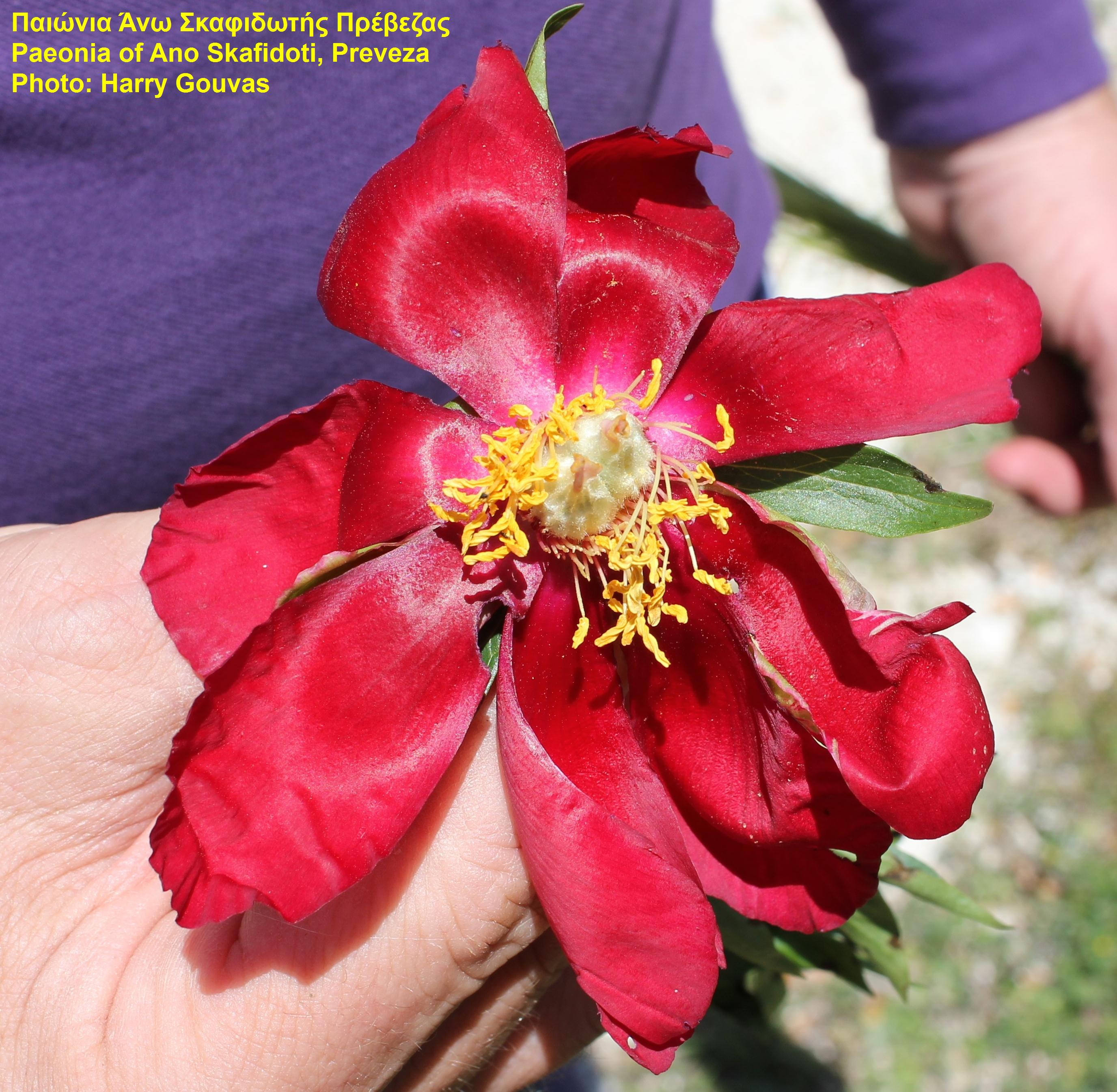 Paeonia of Ano Skafidoti, Preveza